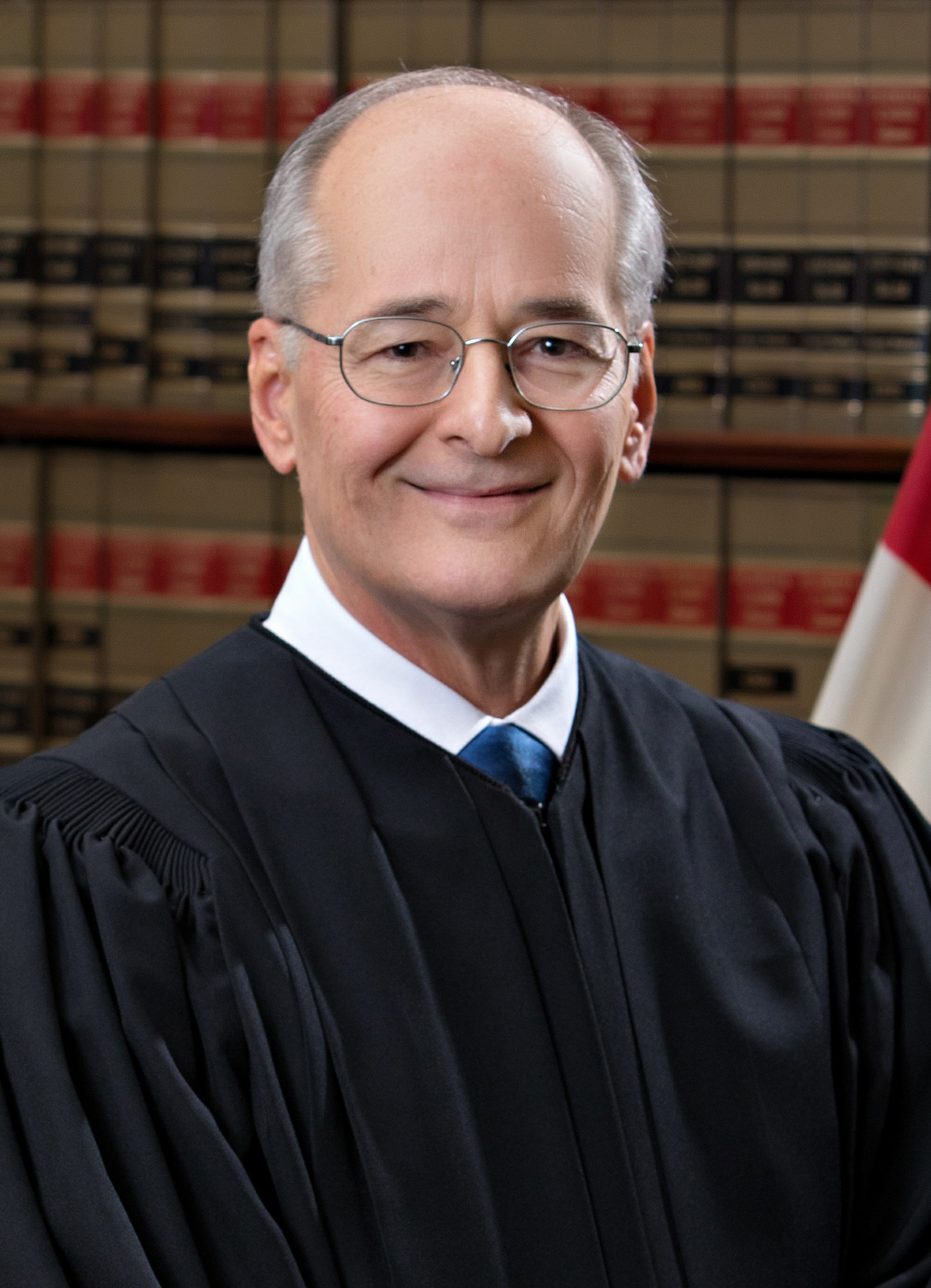 Florida's Chief Justice Charles Canady in 2019.